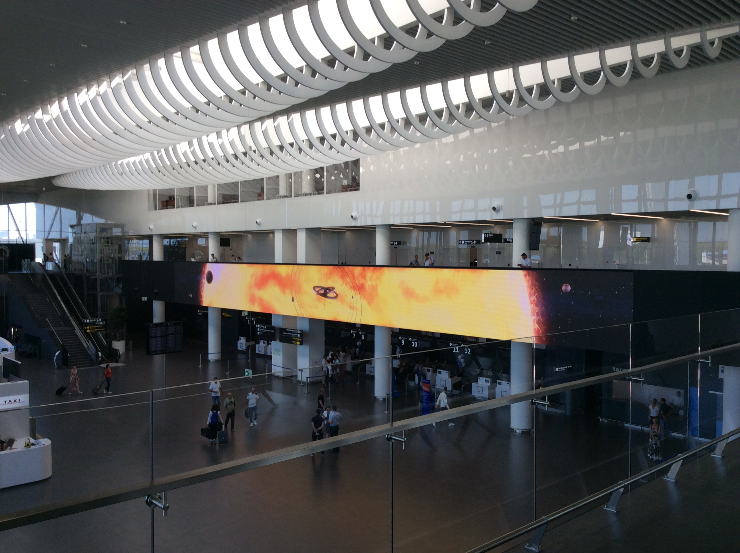 Saratov Gagarin Airport 2 days after opening.